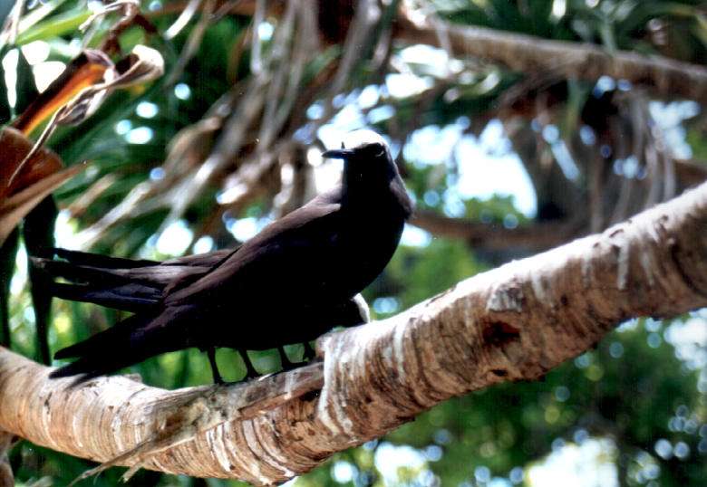 A Brown Noddy Anous stolidus on Lady Musgrave Island